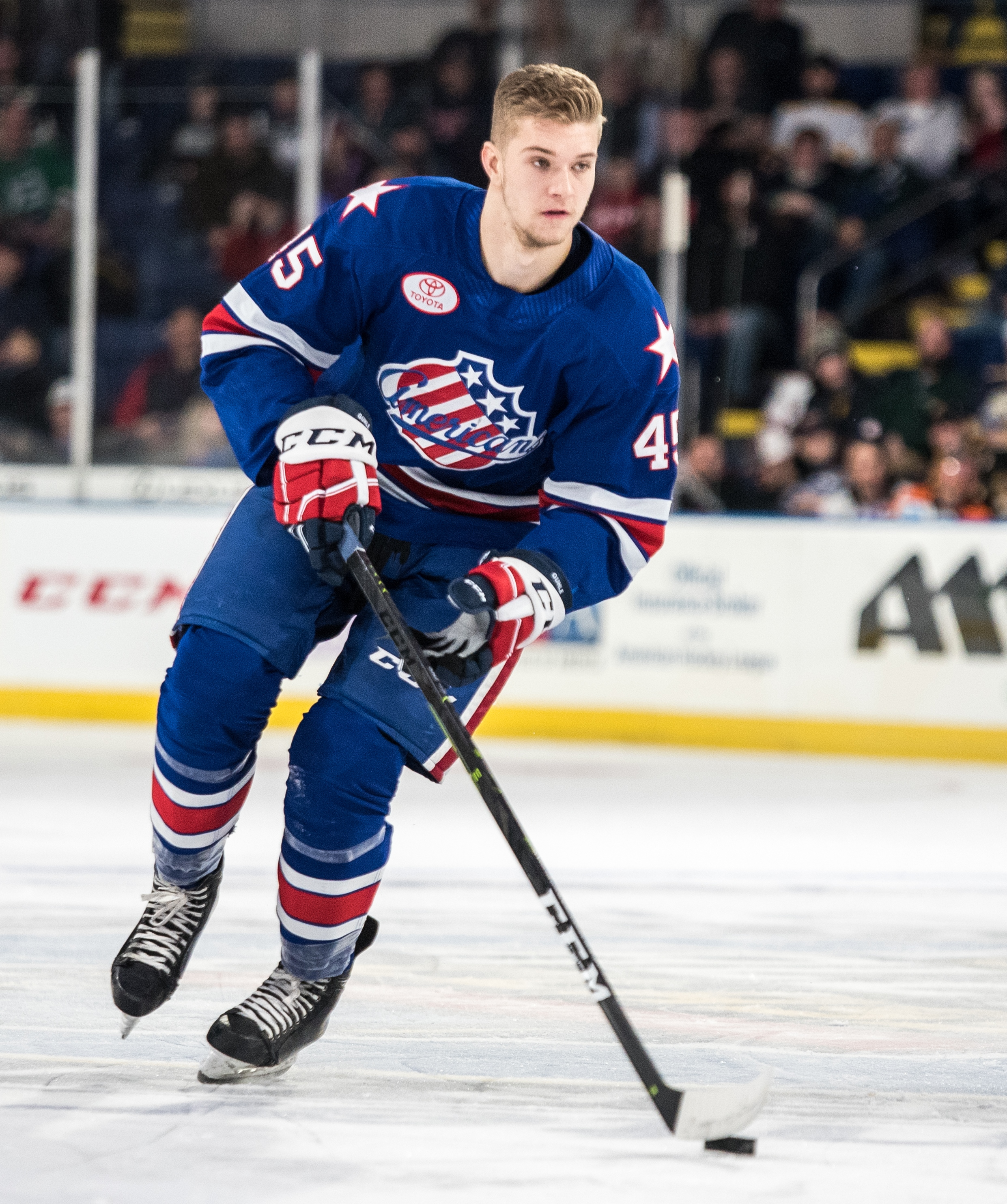 Photo by: China Wong